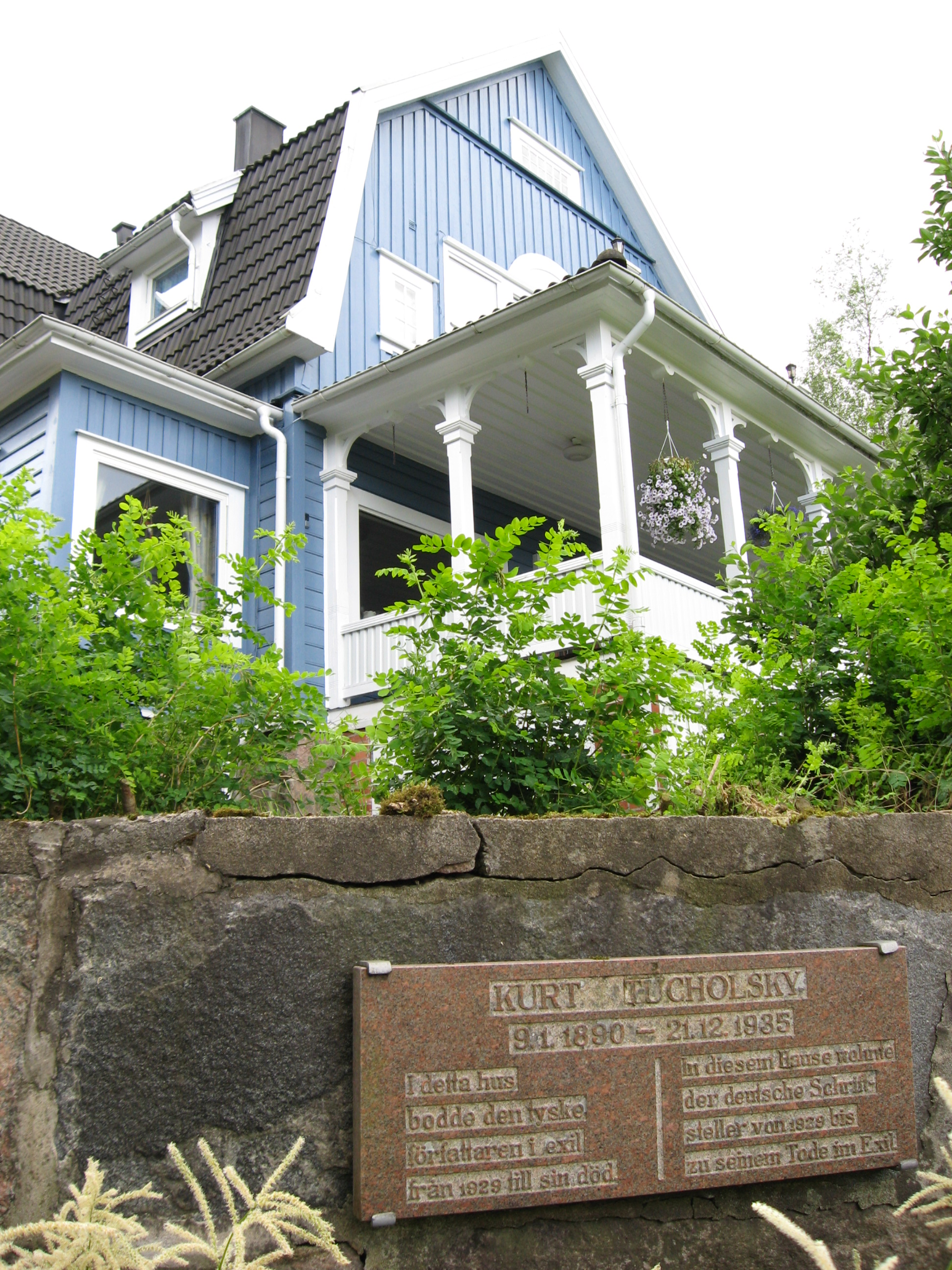 Tucholsky's Villa in Hindas, Sweden (2012)